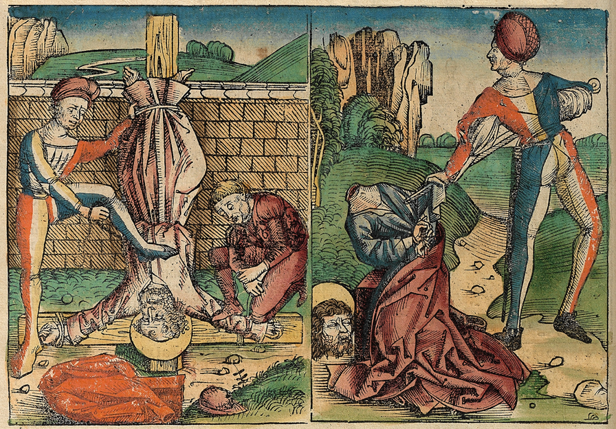 This is a part of a scan of an historical document: Title: Schedelsche Weltchronik or Nuremberg Chronicle